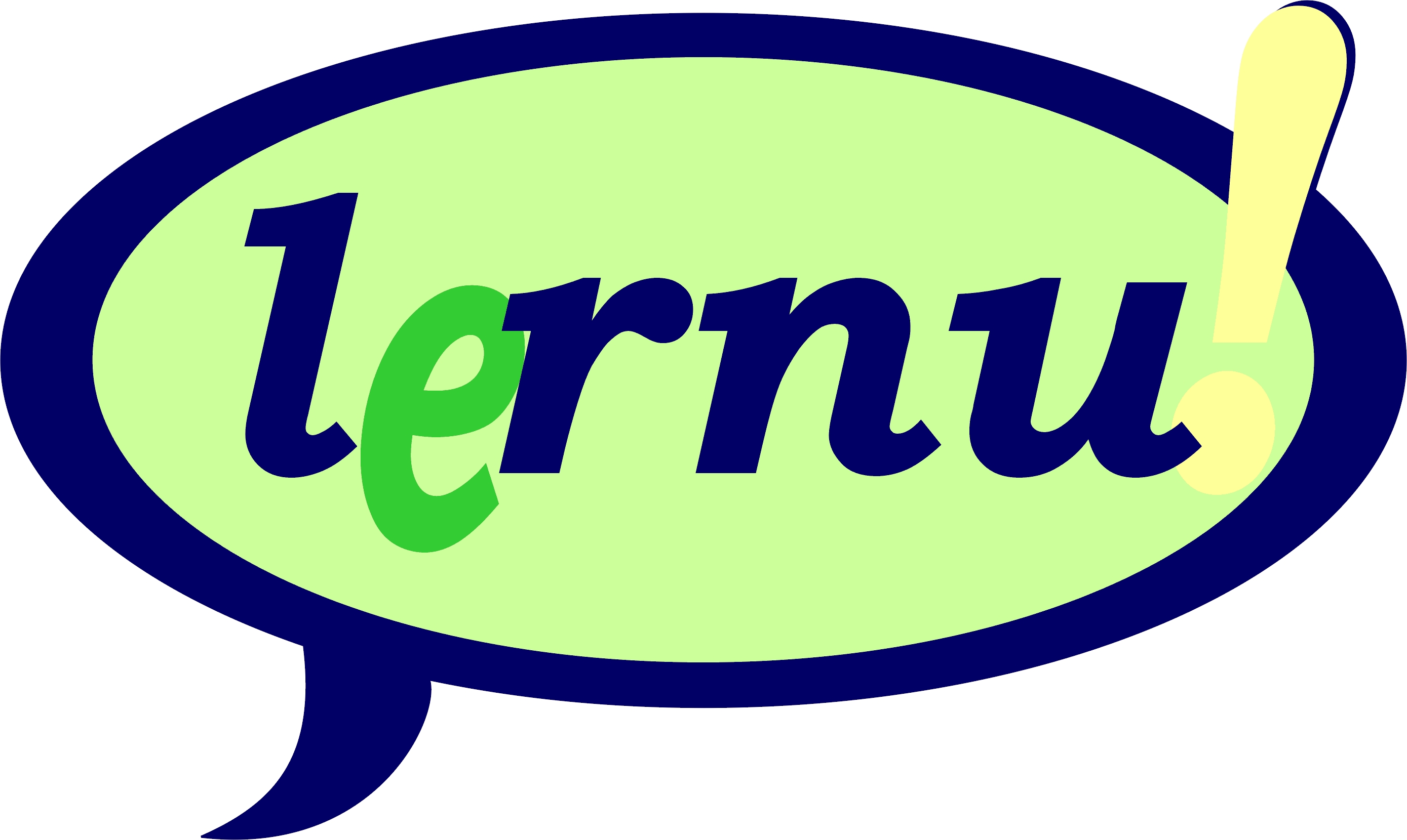 Logo of the Esperanto language-learning website Lernu!